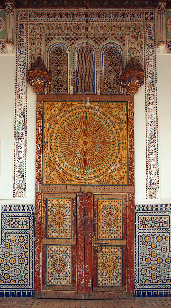 Zaouia Naciria (or Nasiriyya), in Tamegroute